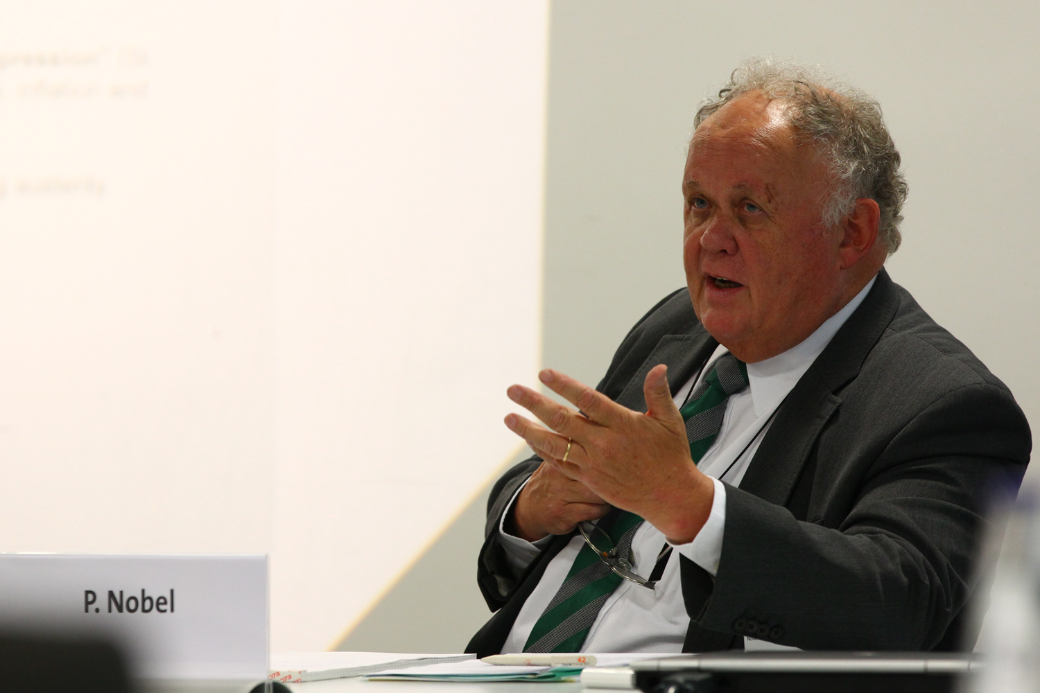 Peter Nobel in May 2012 during a Work Session with Michael Haller at the 42. St. Gallen Symposium at the University of St. Gallen.